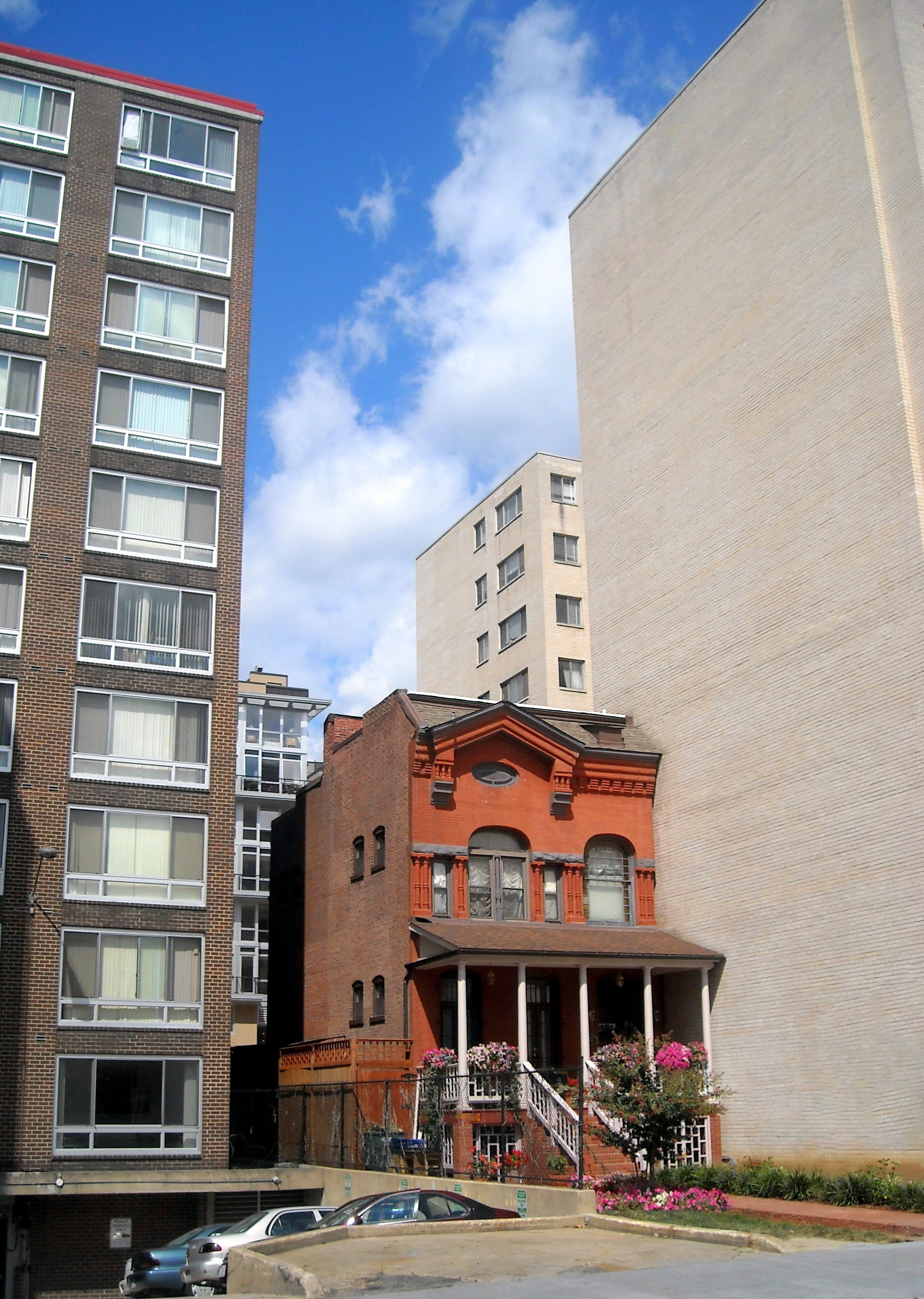 The Second Empire-style building located at 1212 12th Street, N.W., in the Logan Circle neighborhood of Washington, D.C. Constructed in 1875, the private residence is a contributing property to the Mount Vernon West Historic District. Notable past occupants of the building include John C. Houk, John S. Mosby, and the Second Church of Christ, Scientist.